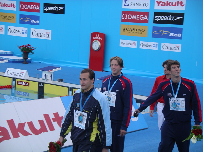 Victory lap of the 100 m butterfly during the 2005 FINA World Championships in Montréal. The swimmers are Andriy Serdinov (bronze medallist, left side), Ian Crocker (gold) and Michael Phelps (silver).